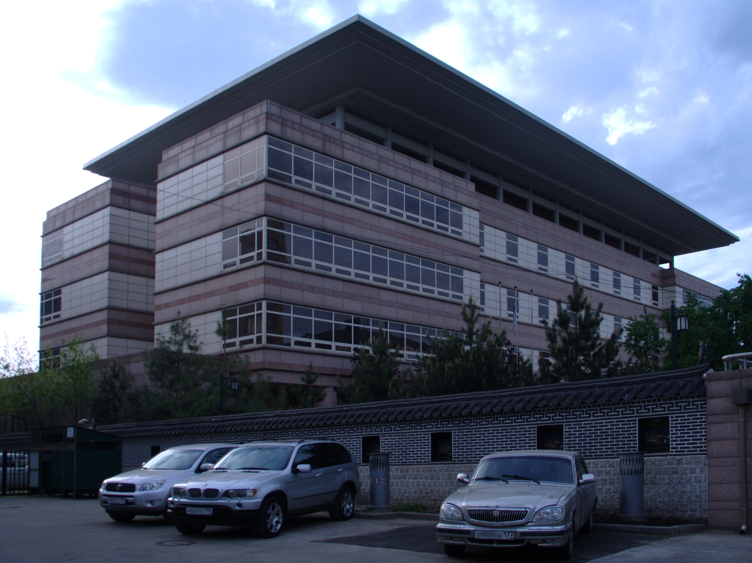 Building of the Embassy of South Korea in Moscow (Plyuschikha st 56/1).